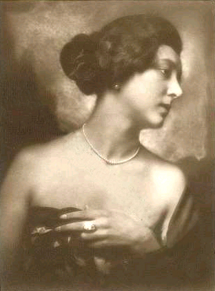 Austrian actress Ressel Orla, photographed by Nicola Perscheid